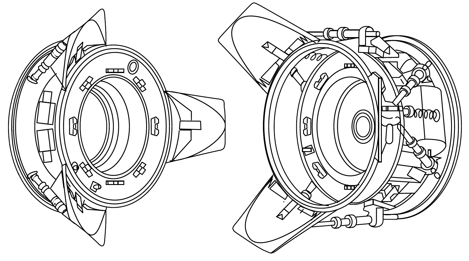 APAS-75 docking unit. Unlike previous docking systems, both units could assume the active or passive roles as required. For docking, the spade-shaped guides of the extended active unit (right) and the retracted passive unit (left) interacted for gross alignment. The ring holding the guides shifted to align the active unit latches with the passive unit catches. After these caught, shock absorbers dissipated residual impact energy in the American unit; mechanical attenuators served the same function on the Soviet side. The active unit then retracted to bring the docking collars together. Guides and sockets in the docking collars completed alignment. Four spring push rods drove the spacecraft apart at undocking. The passive craft could play a modified active role in undocking if the active craft could not complete the standard undocking procedure. Pyrotechnic bolts provided backup.